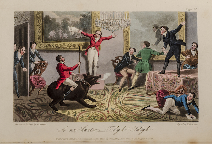 A new hunter - Tally ho, Tally ho, by Henry Alken - Memoirs of the Life of the Late John Mytton, Esq. of Halston, Shropshire, by Nimrod, 2nd ed, London, 1837.